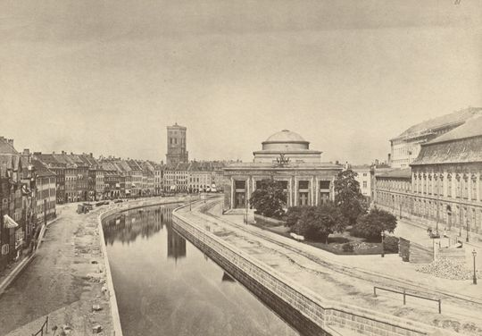 Frederiksholms Kanal, Gammel Strand and Bertel Thorvaldsens Plads (Thorvaldsens Museum) in Copenhagen, Denmark. The stone quayside under Construction.